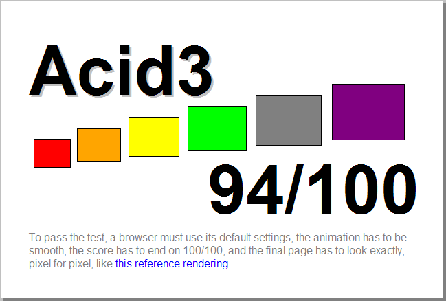 ACID3 Screenshot using the latest nightly build of Firefox